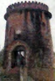 El Molino de Santa Ana en Bayamon